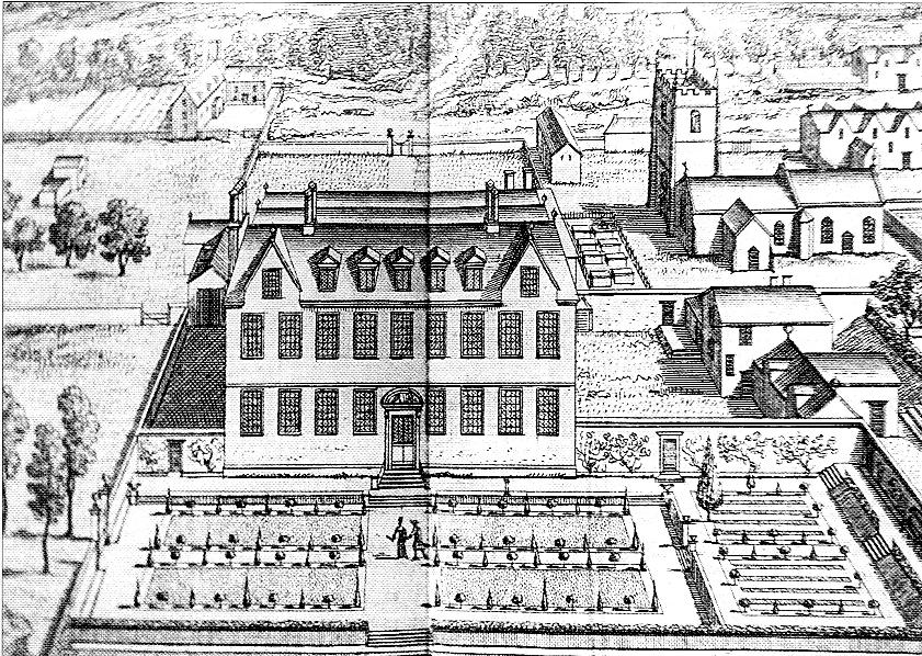 Kip's depiction of the Lower House, Alderley in Gloucestershire c.1660, as per Atkyn's History of Gloucestershire 1712, showing the house with 9 bays, gables at either end, and dormer windows in between.